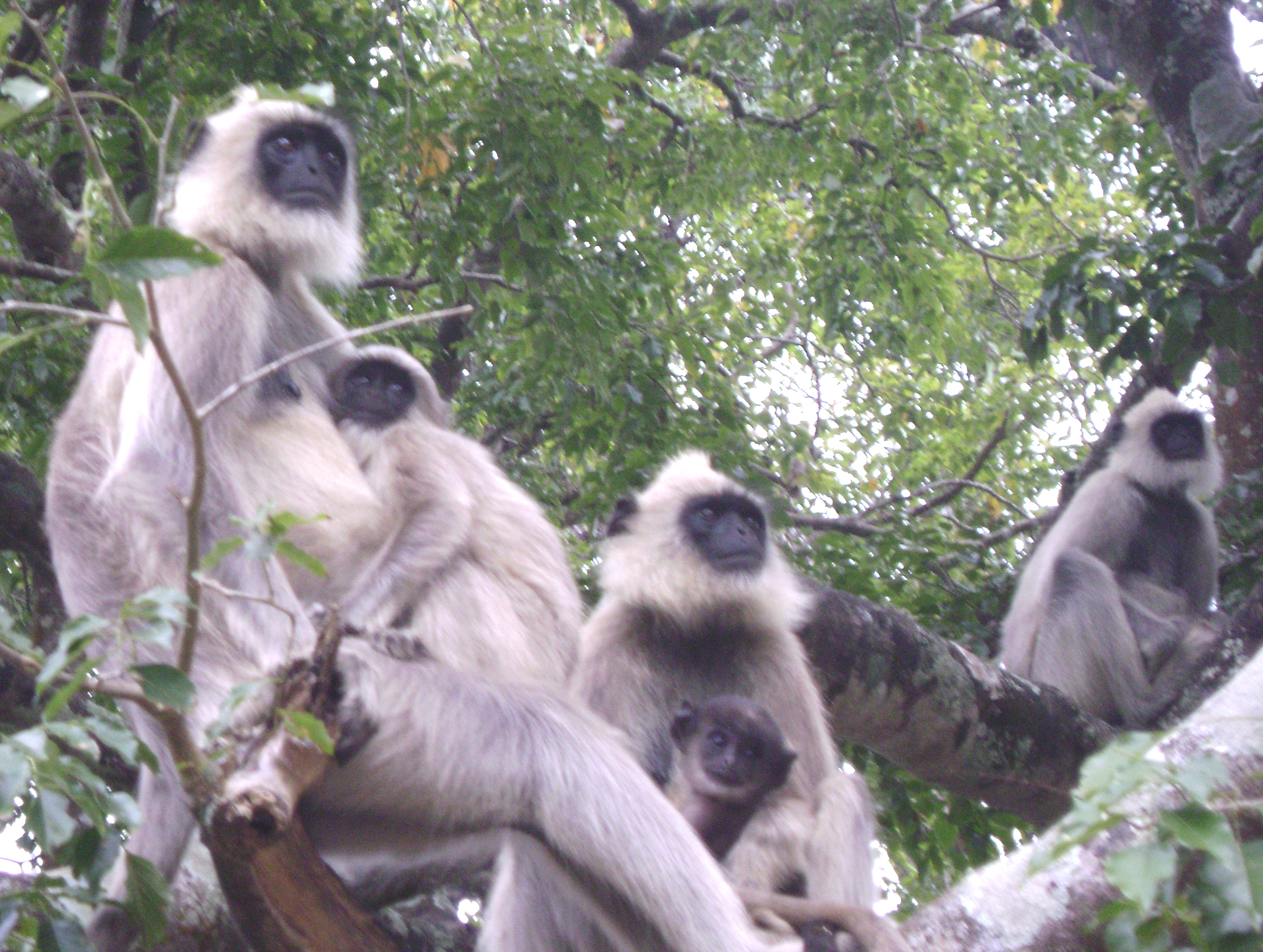 Family of Grey Langeurs near Theppakadu Log House, Mudumalai National Park